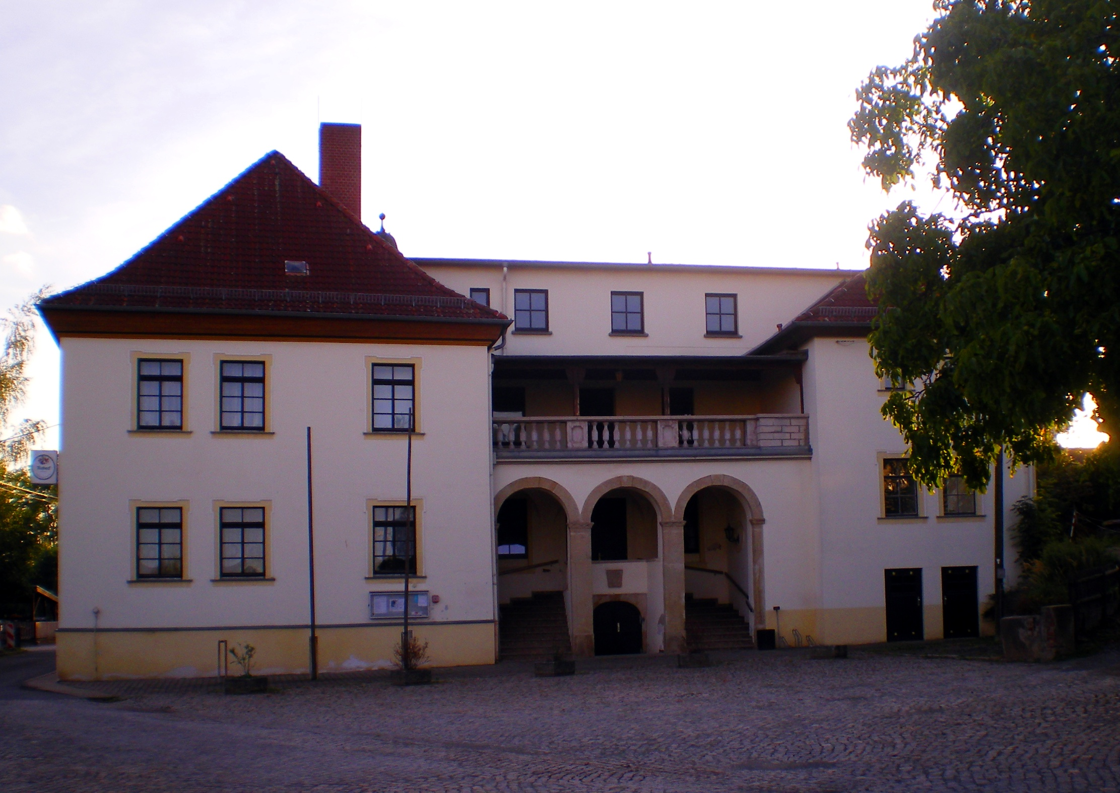 Castle in Kauern near Gera/Thuringia